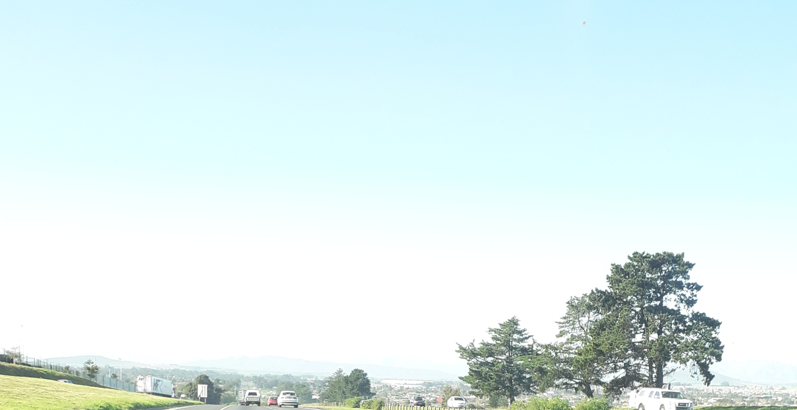 N1 in Kraaifontein, Western Cape, South Africa